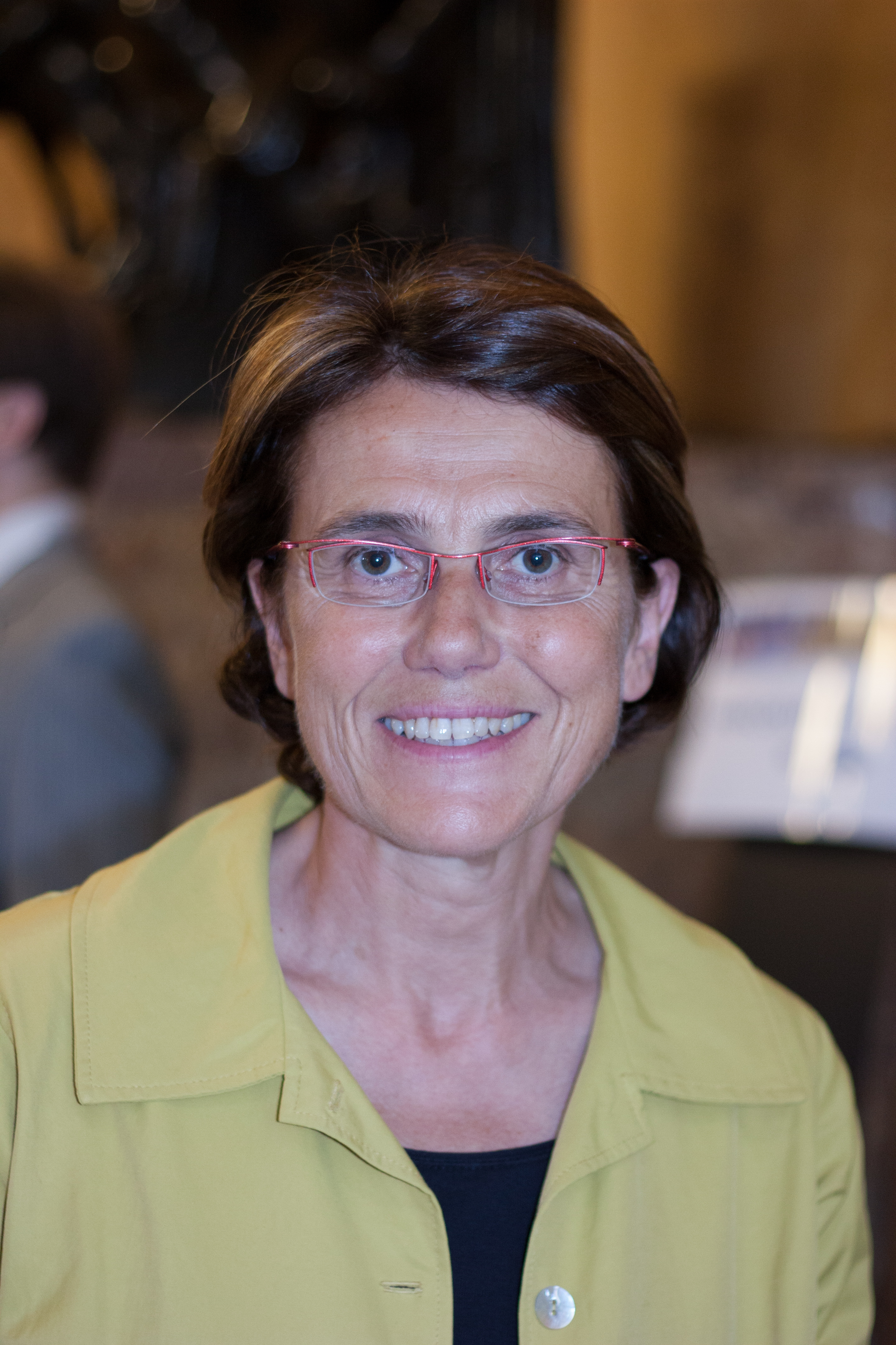 MP of the 14th legislative session of the Fifth Republic (France).